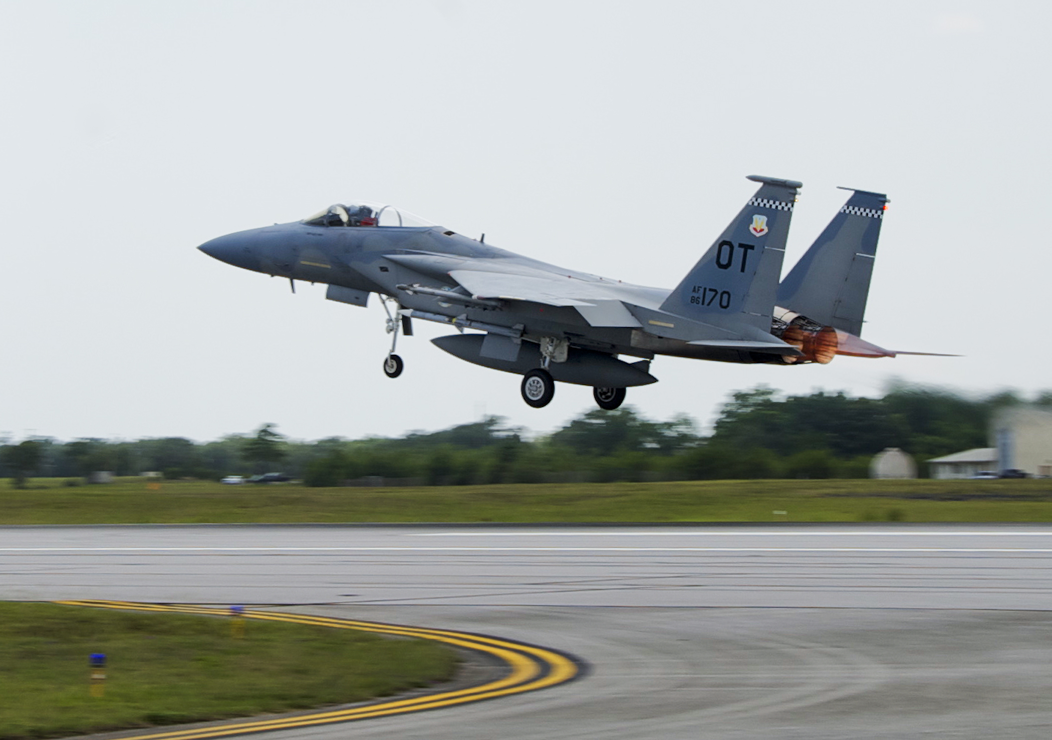 A U.S. Air Force McDonnell Douglas F-15C-42-MC Eagle (s/n 86-0170) of the 85th Test and Evaluation Squadron, 53rd Wing, lifts off the runway at Eglin Air Force Base, Florida (USA), in June 2014. The 85th is responsible for conducting operational test and evaluation, tactics development and programs for F-15C, F-15E and F-16CM aircraft.